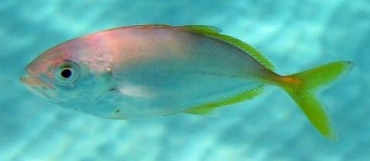 Cropped from Shrimp scad Greece.JPG for taxobox